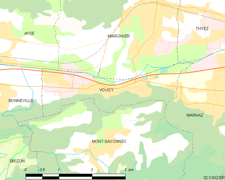 Map of French municipality Vougy